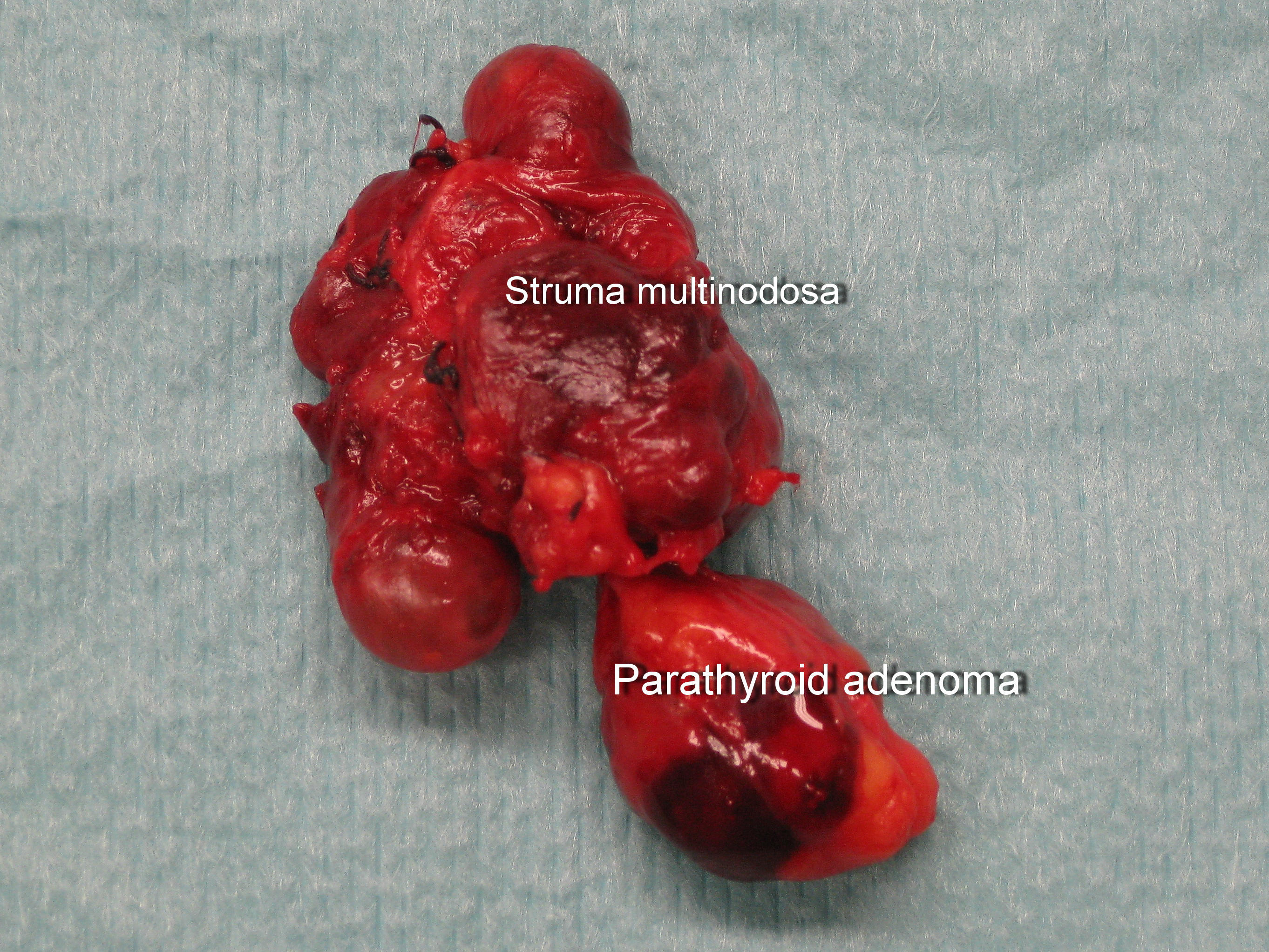 Parathyroid Adenoma